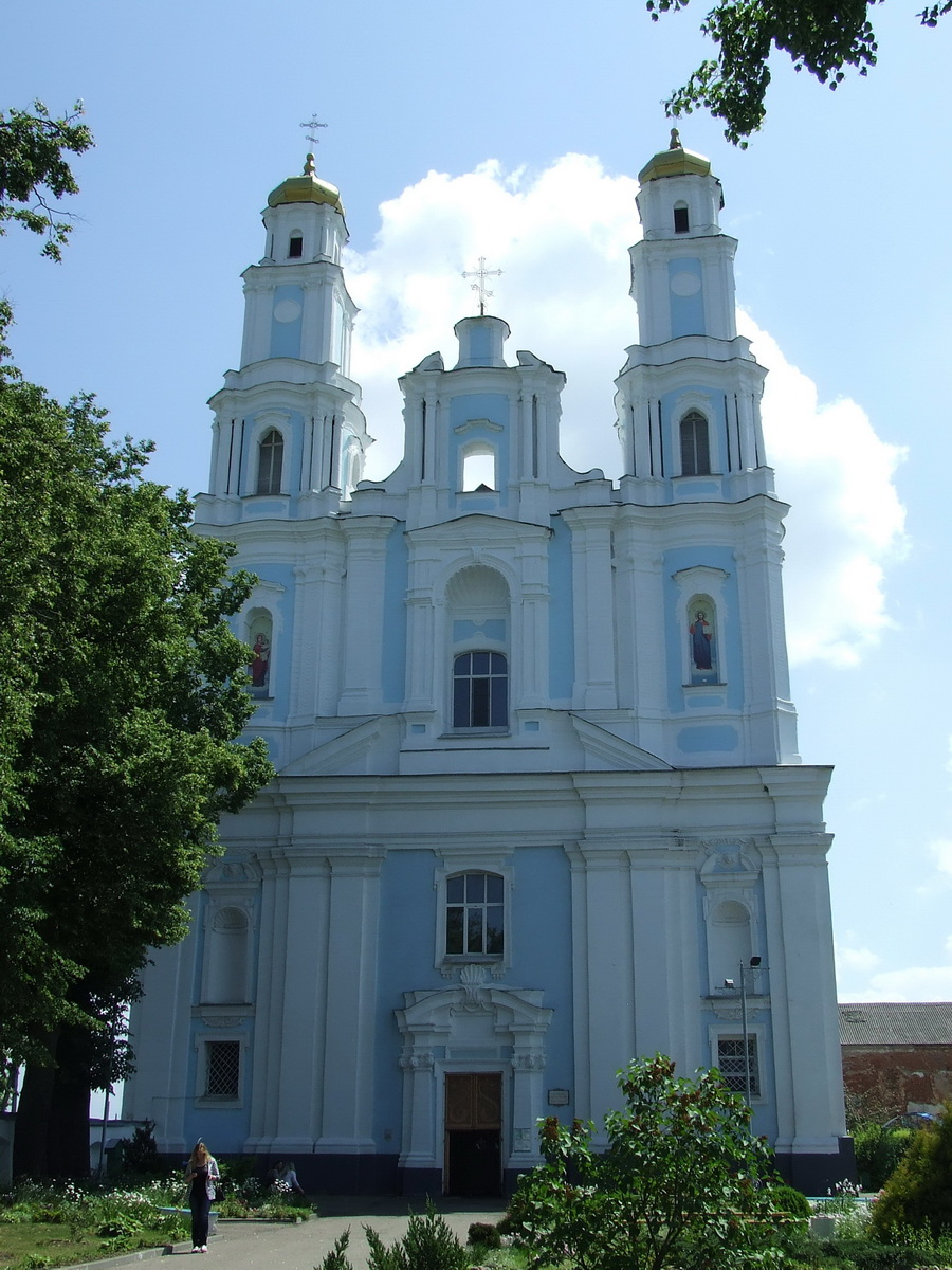 Orthodox church of the Birth of the Virgin (Hlybokaje, Belarus).